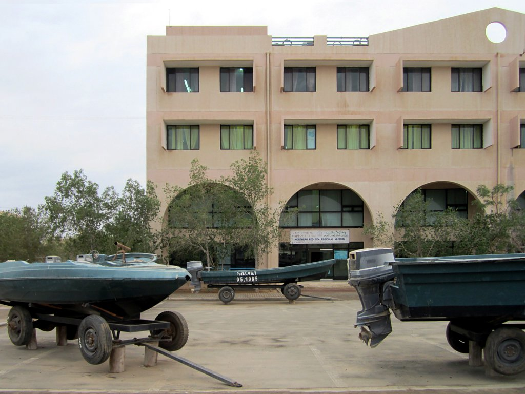 Speedboats used during the 1961-1991 struggle for independence are outside the Northern Red Sea National Museum at Massawa, Eritrea.